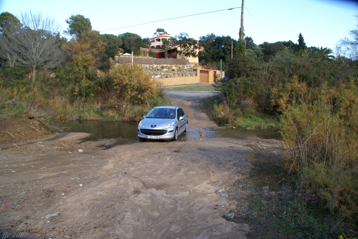 Calonge, Catalonia: Ford at the confluence of the river Folc (left) and the Rifred (middle)